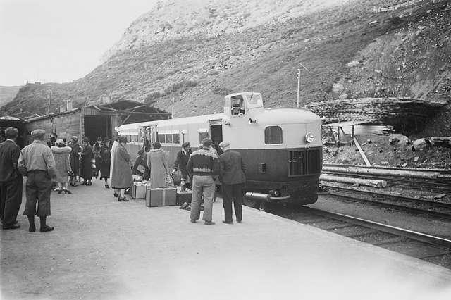 Railcar at Myrdal railway station, Norway.